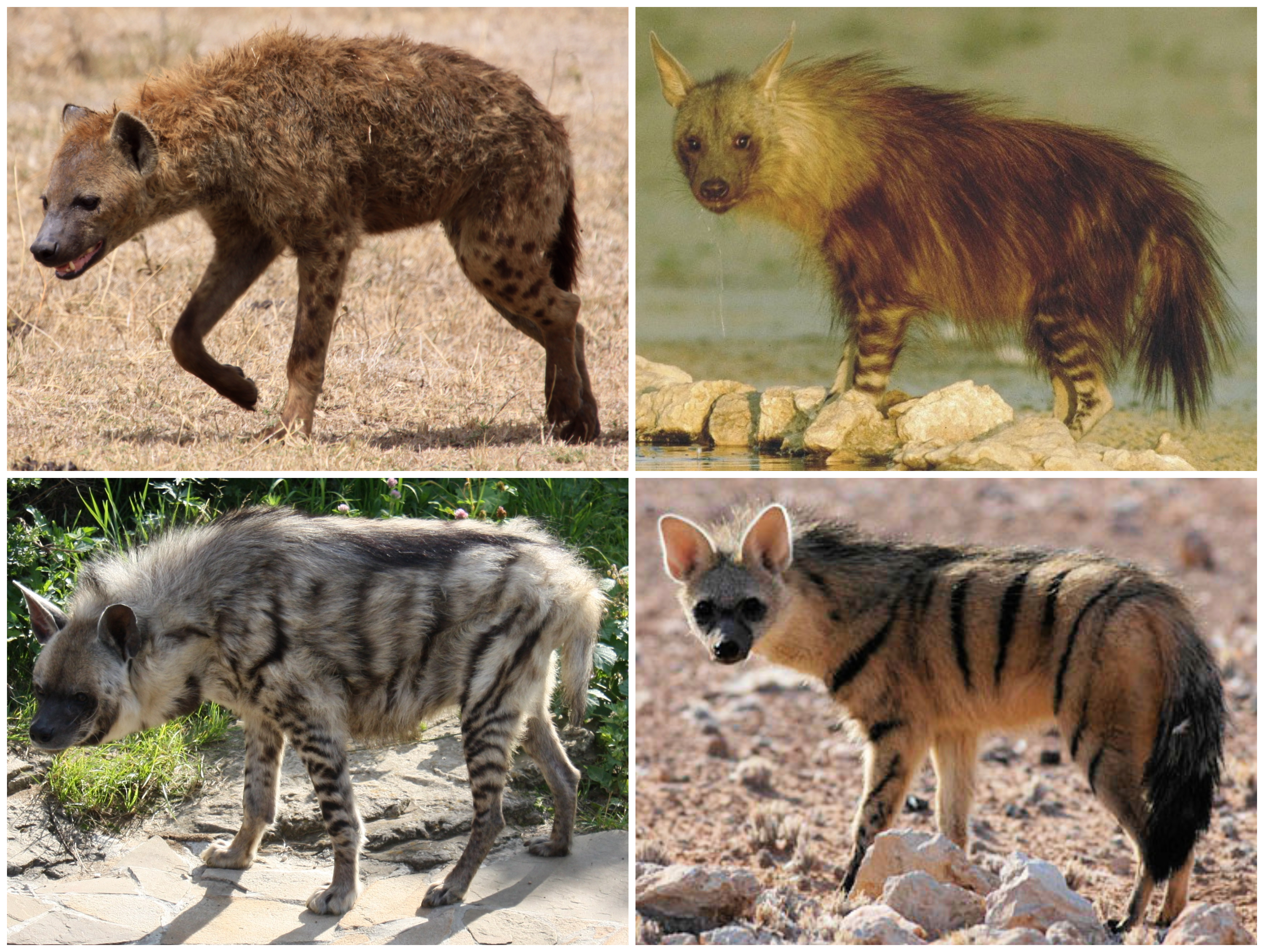 Hyaenidae Diversity